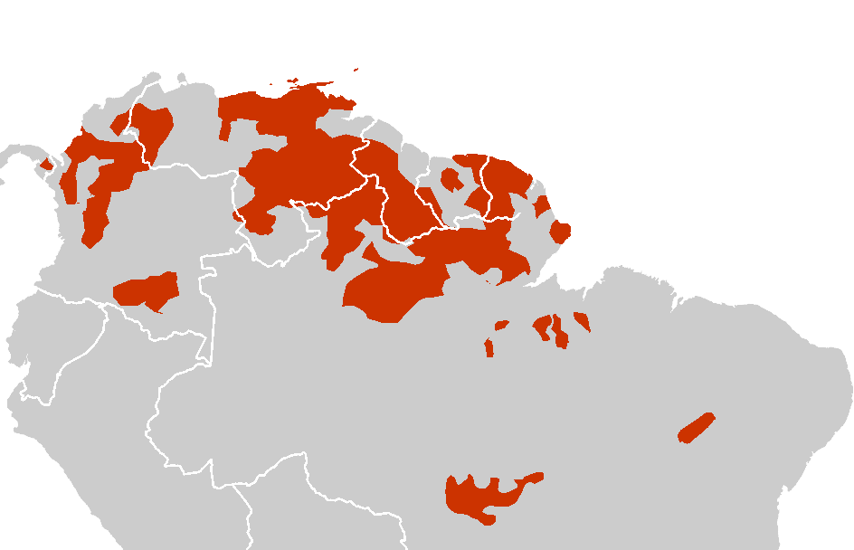 Cariban languages, source: Nicholas Ostler (2005): Empires of the World: A Language History of the World